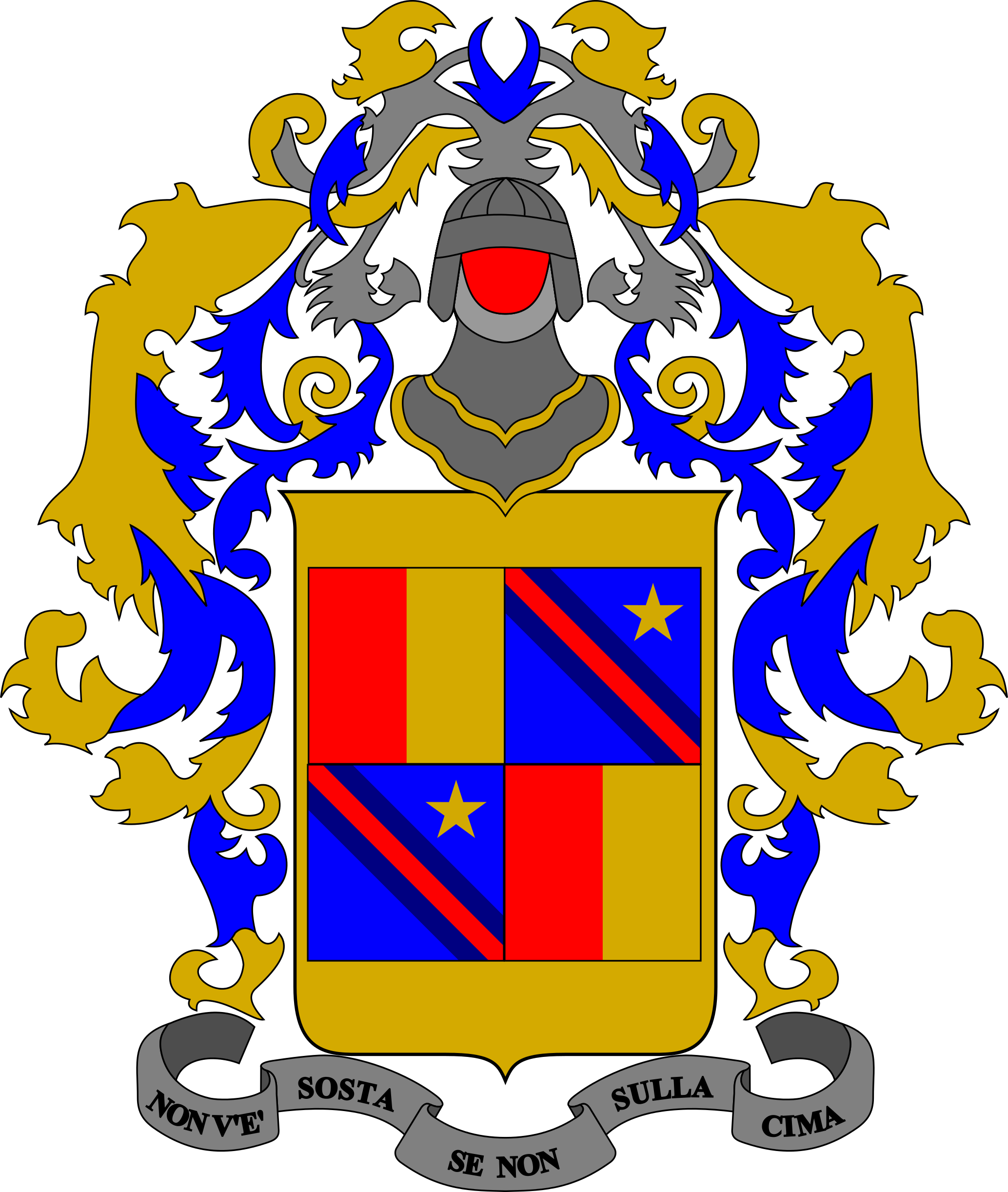 Coat of Arms of the 232nd Infantry Regiment "Avellino", Royal Italian Army, 1939